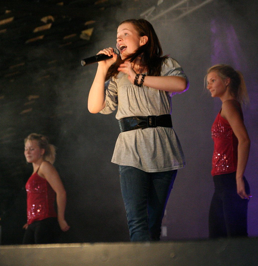 Amy Diamond singing at Fagerö Jippo happening in Rangsby, Närpes in Finland.